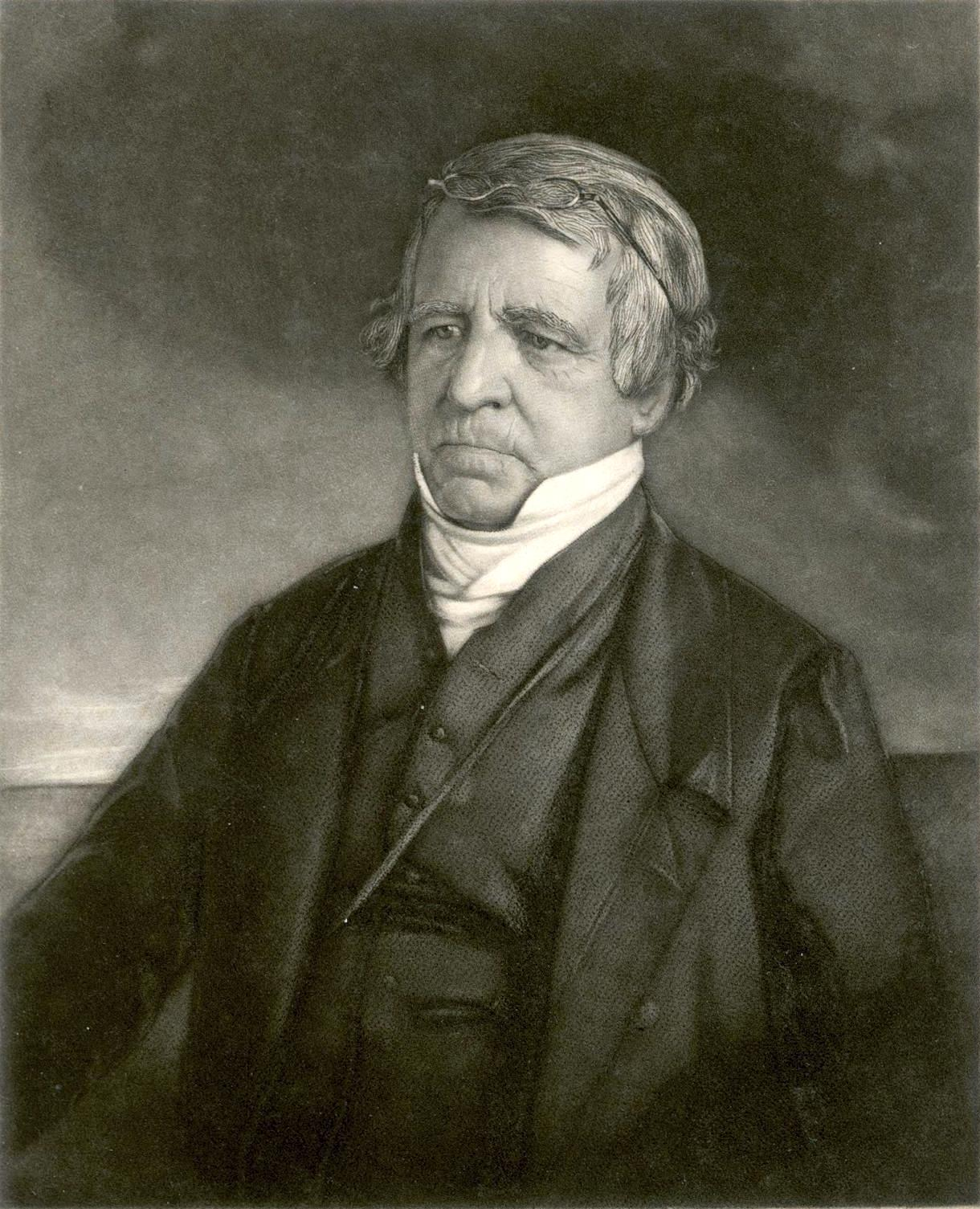 Nathaniel Chapman (1789-1853), M.D. 1801, autographed portrait